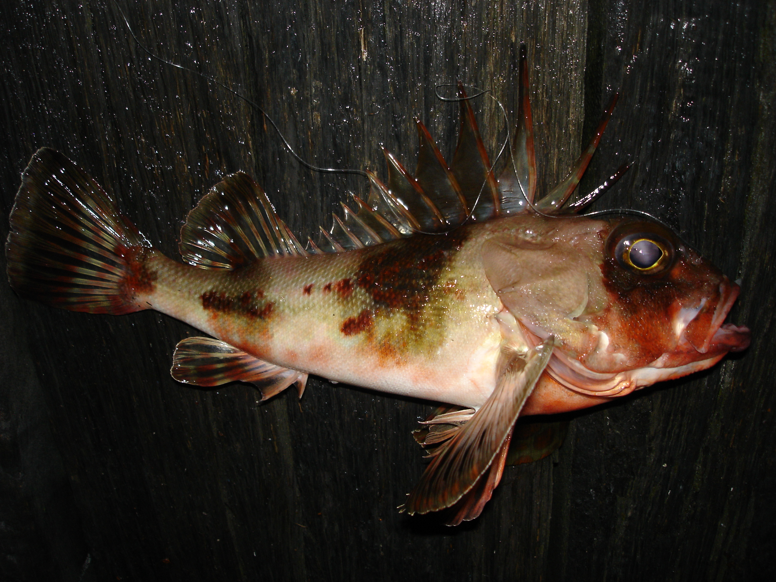 Neosebastes thetidis (Waite, 1899)